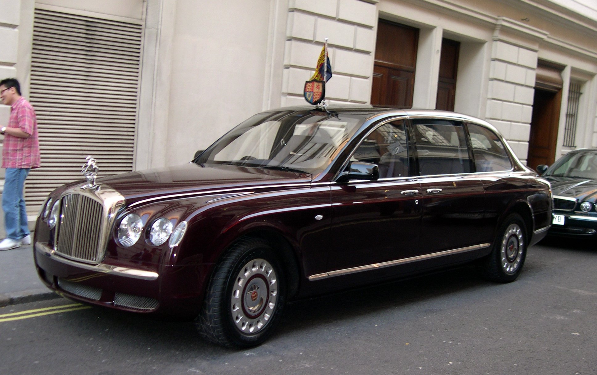 Queen Elizabeth II's 2002 Bentley State Limousine, one of two